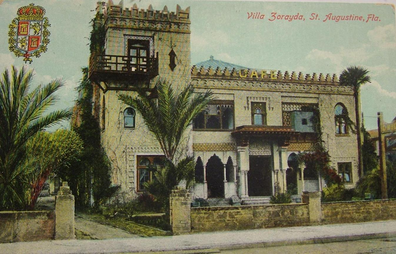 Postcard from 1900s